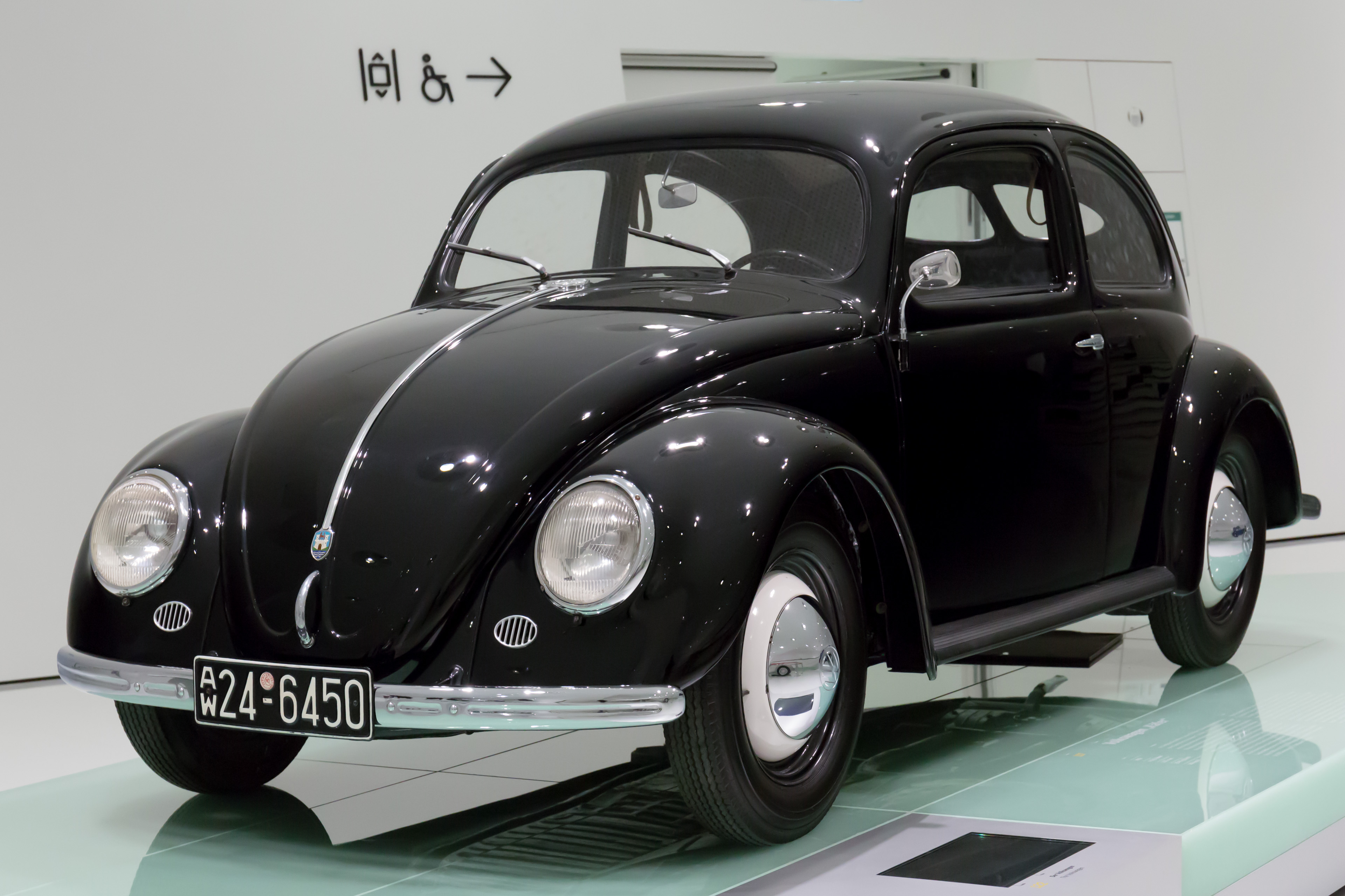 1950 Volkswagen Type 1